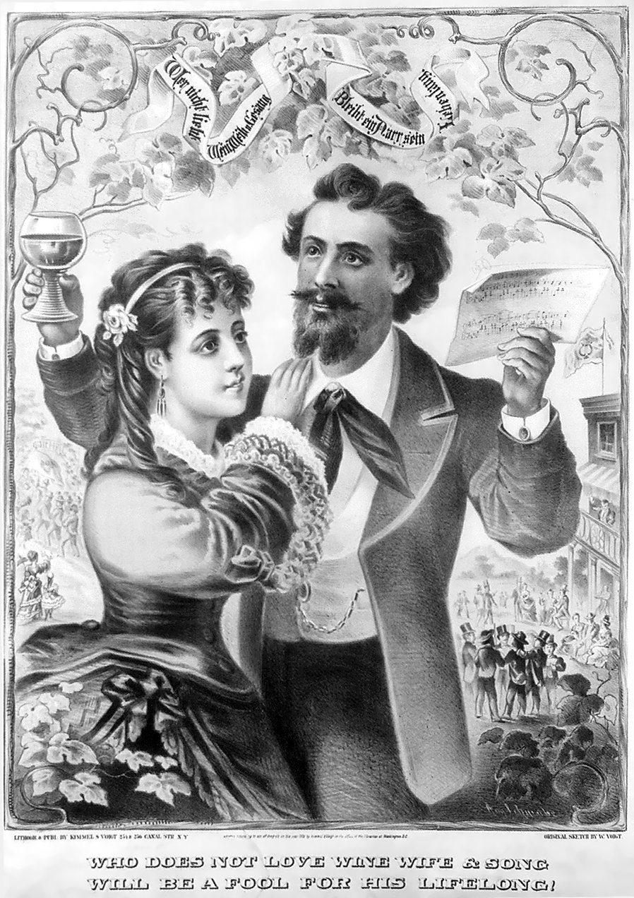 "WHO DOES NOT LOVE WINE WIFE AND SONG WILL BE A FOOL FOR HIS LIFELONG!" A more natural phrasing in 21st-century English would be: "He who does not love wine, wife, and song will be a fool his whole life long." A print published by Kimmel and Voigt in New York, 1873. In addition to its obvious meaning (and a reference to Strauss' "Wine Wife and Song Waltz"), this is also a vigorous assertion of the cultural values of German-American immigrants in the face of "Temperance" and "Maine Law" campaigners (i.e. alcohol prohibitionists), and other reformers who judged immigrants from a "native American" and/or English-speaking Protestant fundamentalist point of view. For an opposing point of view (women who saw alcohol as a major aggravating factor in men's mistreatment of their families, and its prohibition as a highly-positive social reform), see Image:Womans-Holy-War.jpg.